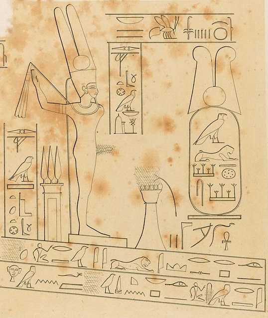 Drawing of a rock inscription from Wadi Hammamat: Amun-Min (left) opposite to Artaxerxes I's cartouche (right). Year 5 of Artaxerxes I of Persia, 27th Dynasty, Late Period.